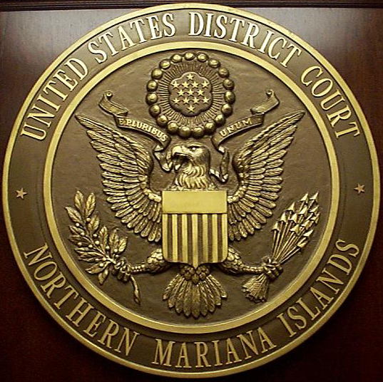 Seal of the United States District Court for the Northern Mariana Islands. From the Court's website